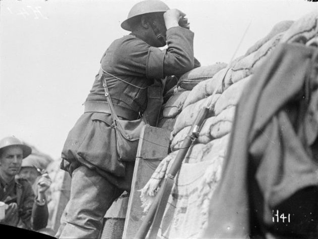 A New Zealand Brigade Commander, identified as Brigadier General Harry Townsend Fulton, looks through binoculars at the German position from a front line trench on Hill 63, near Messines, during World War I. Photograph taken May 1917 by Henry Armytage Sanders. Ref: 1/4-009463-G. Alexander Turnbull Library, Wellington, New Zealand.